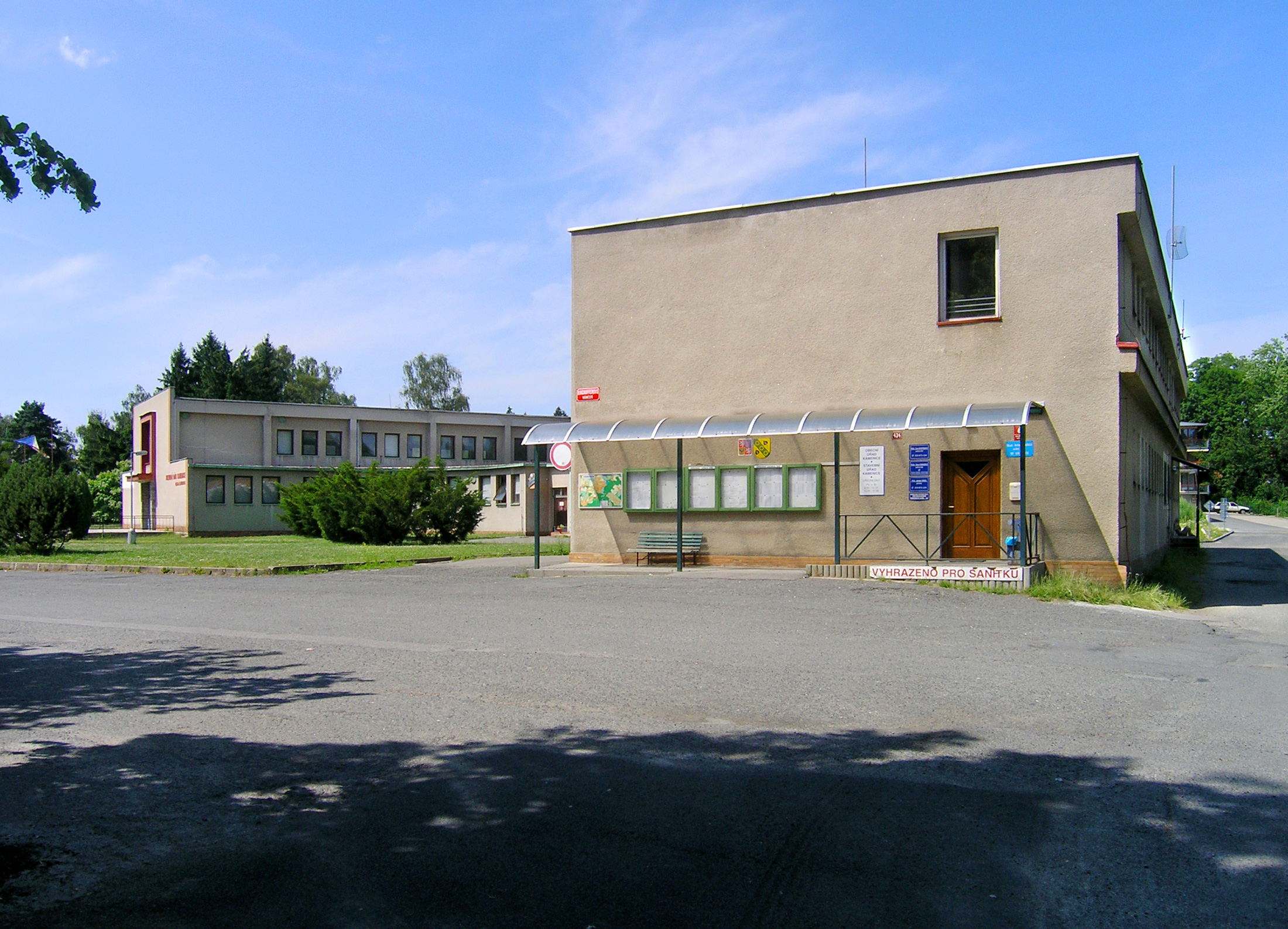 Municipal office in Kamenice, Czech Republic